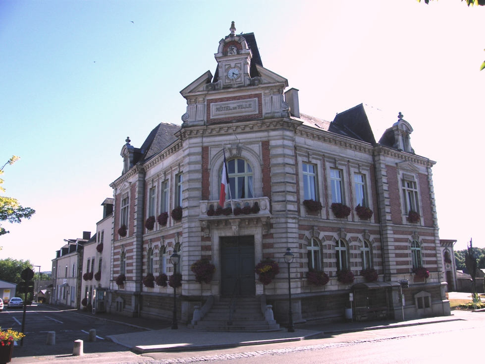 Front entrance view of Ernee Hotel de Ville